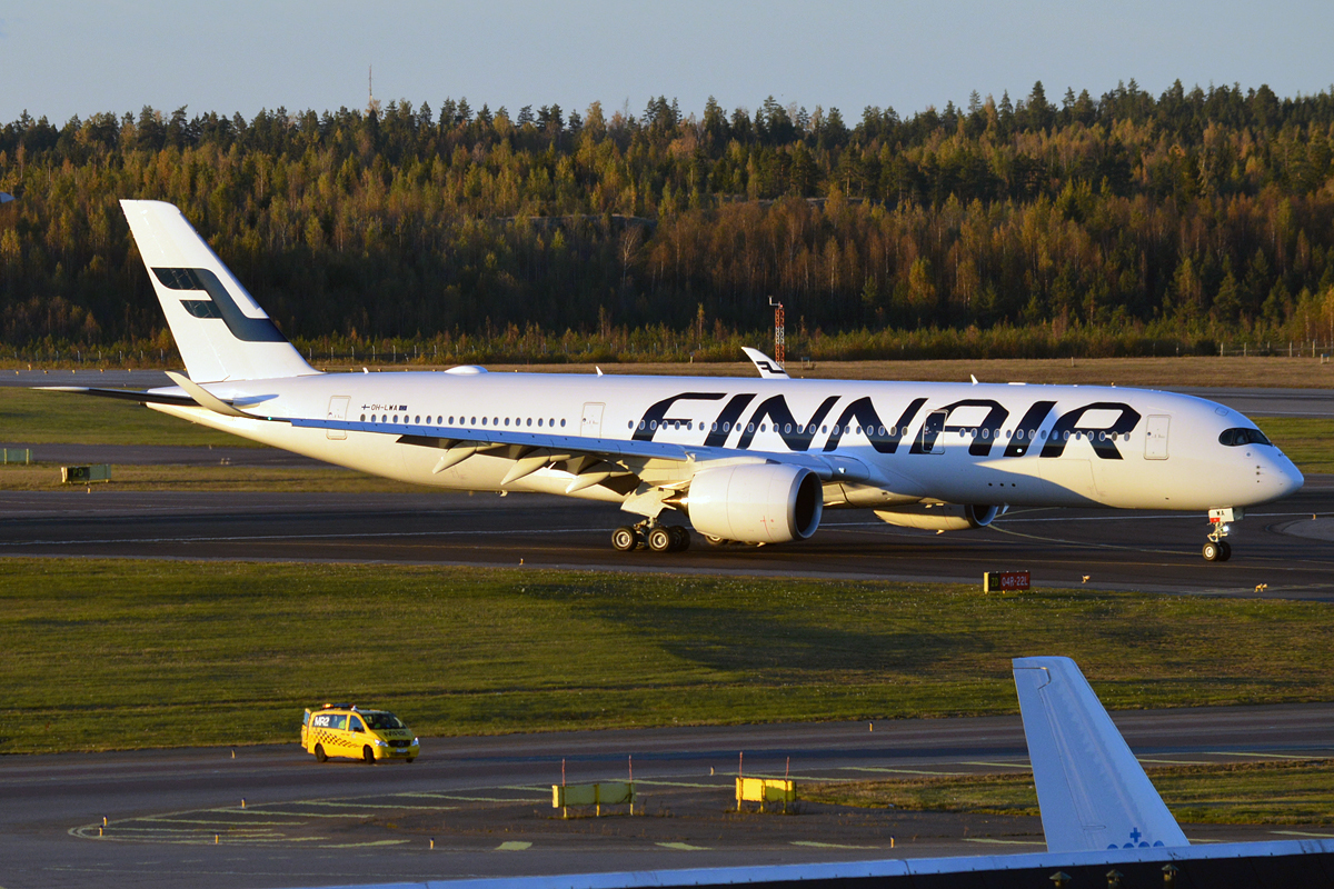 Finnair, OH-LWA, Airbus A350-941